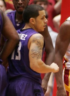 Angel Rodriguez (K-State) and Anthony Booker (Iowa State)